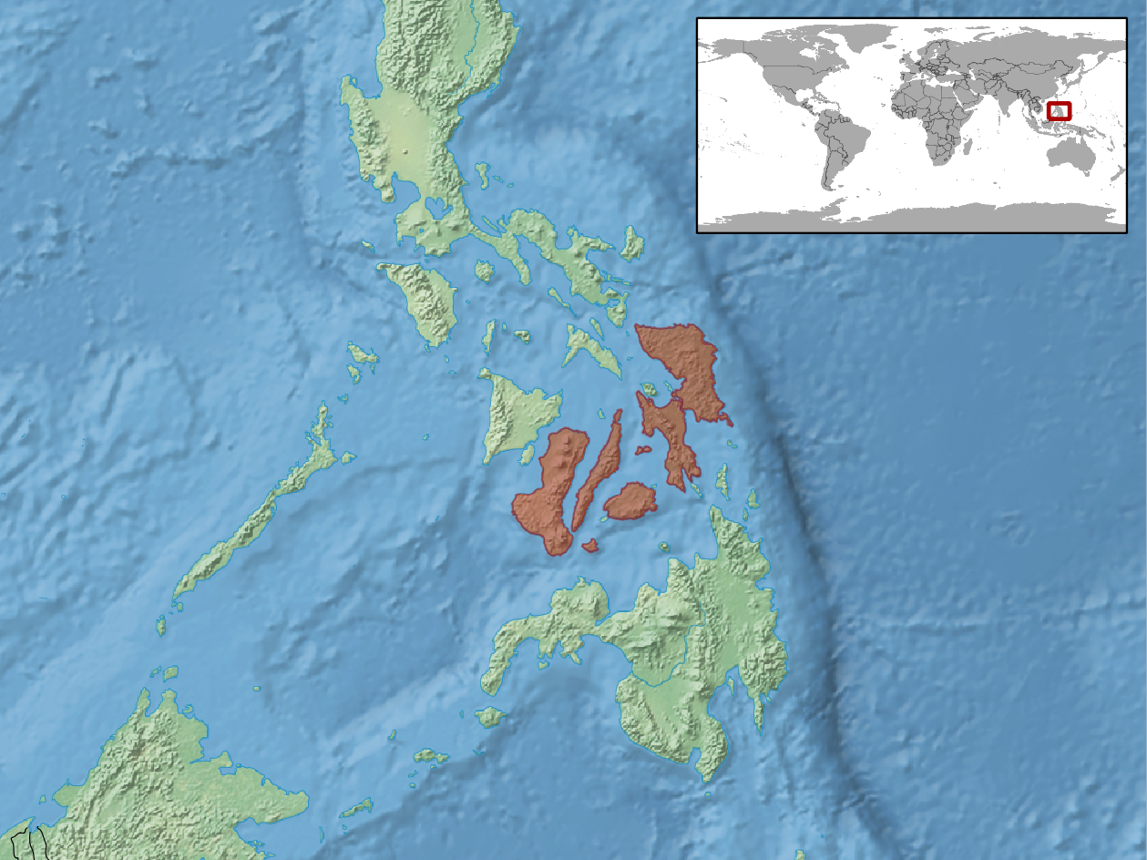 geographic distribution of Lepidodactylus herrei (Native: Philippines)